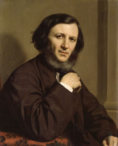 "Robert Browning,". Courtesy of the National Portrait Gallery, London.